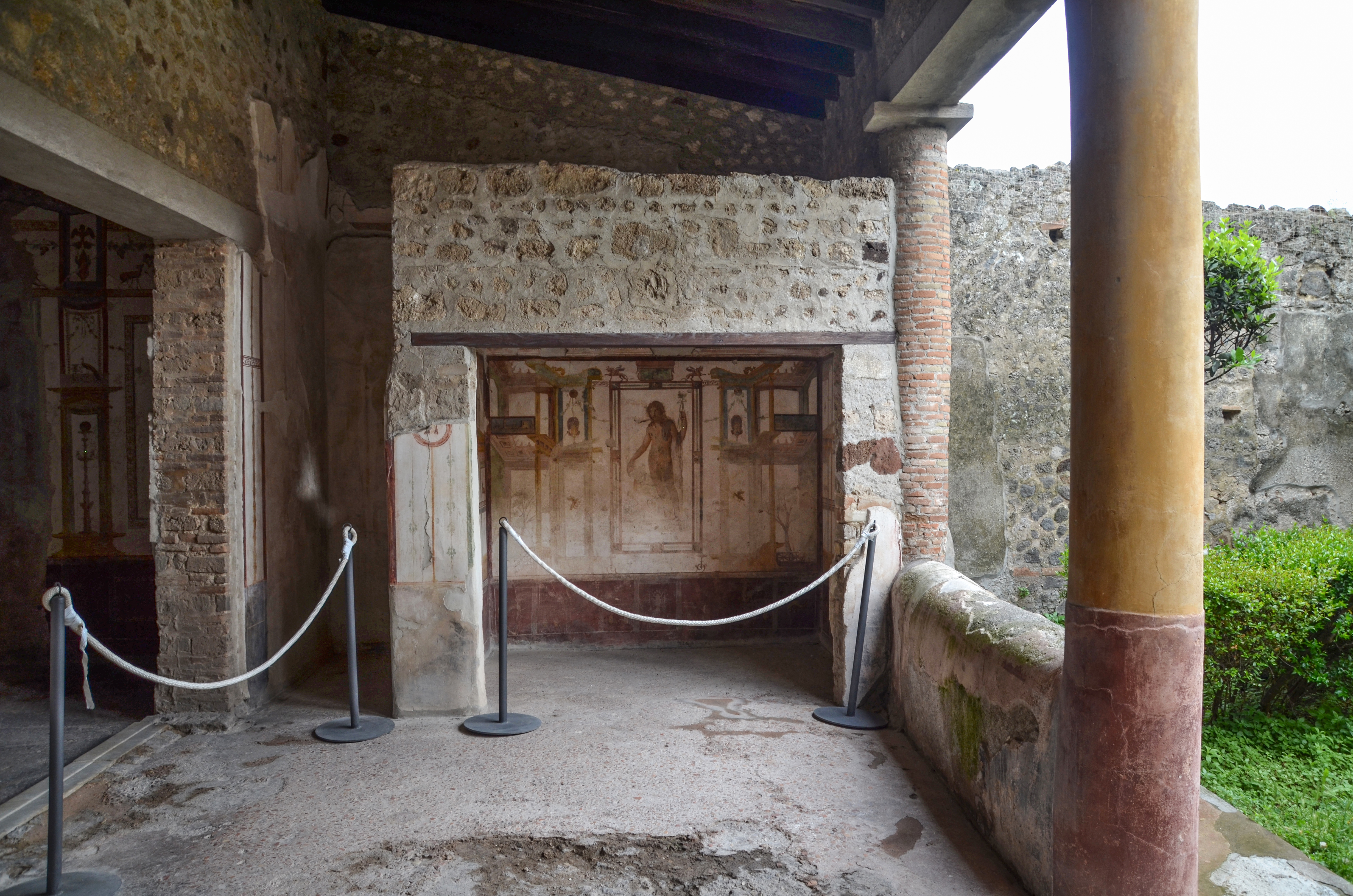 Porticus looking into the Exedra at The House of the Prince of Naples, Pompeii, Italy 2nd century BCE - 1st century CE